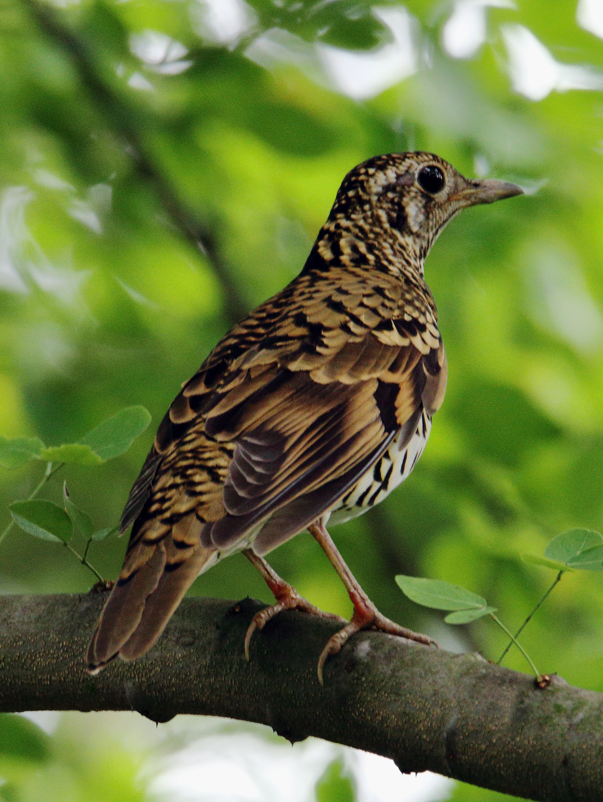 Elegantly perched on a tree. According to its behavior,scaly thrush prefers dense cover.